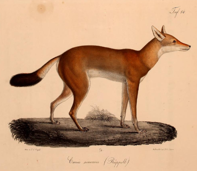 Engraving of Ethiopian wolf